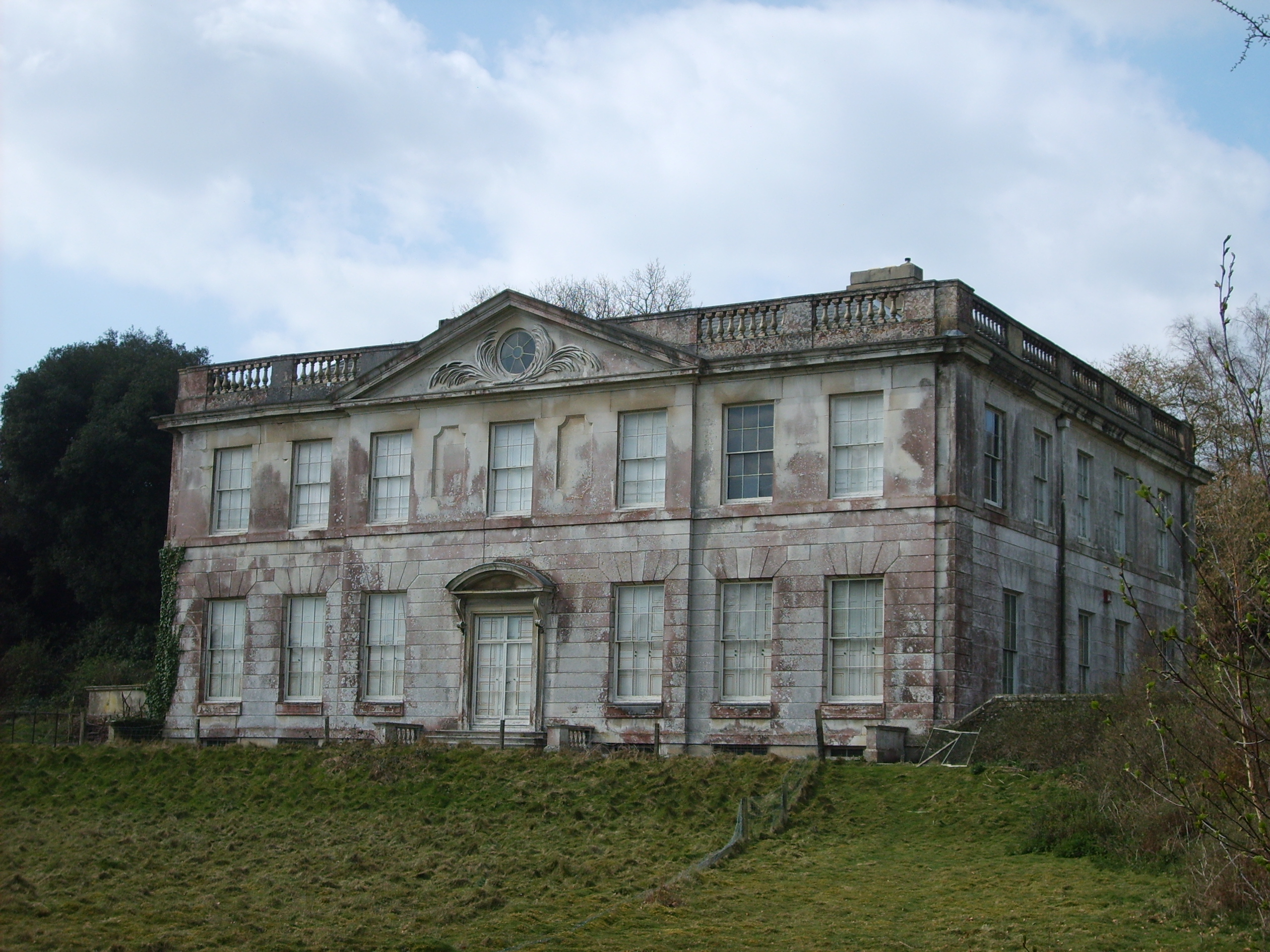 Pitshill House, near Tillington, West Sussex, UK.